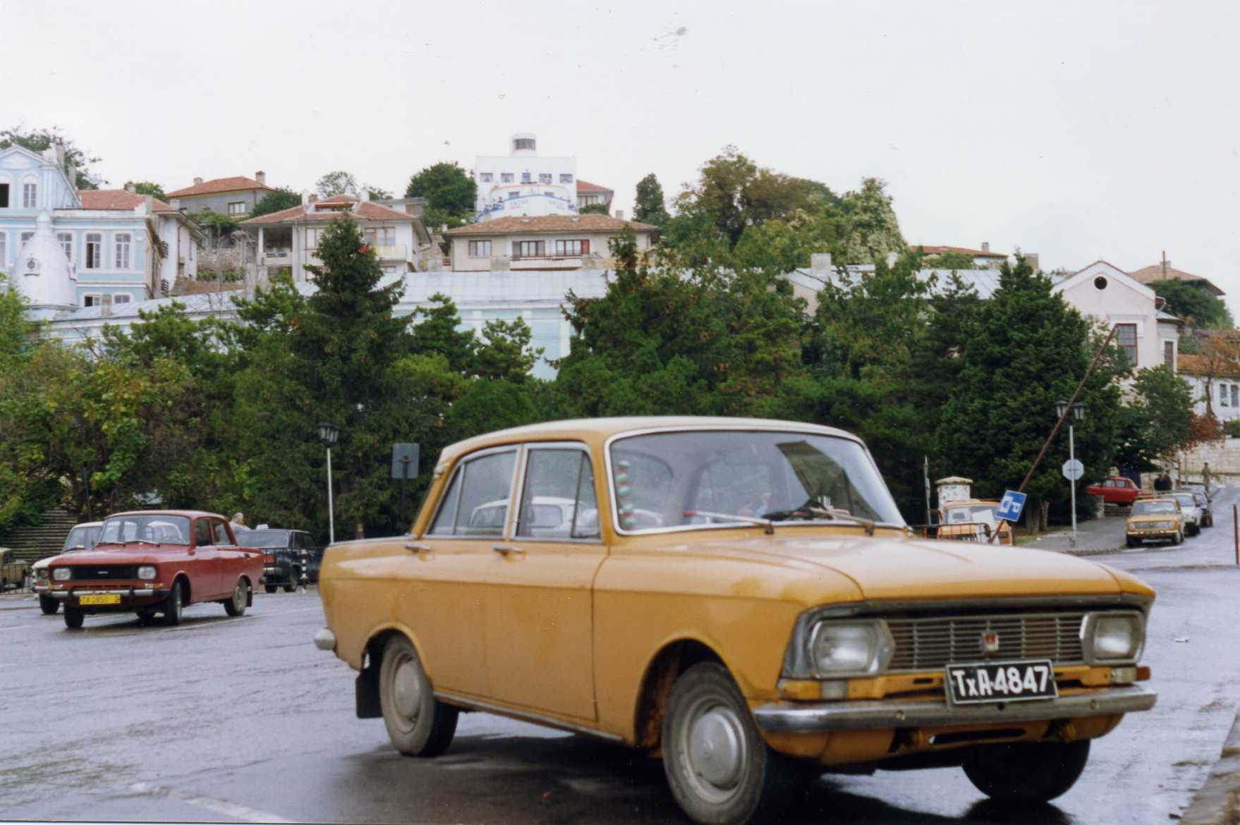 Балчик . Moskvich Car, Balchik, Bulgaria Oct 1993